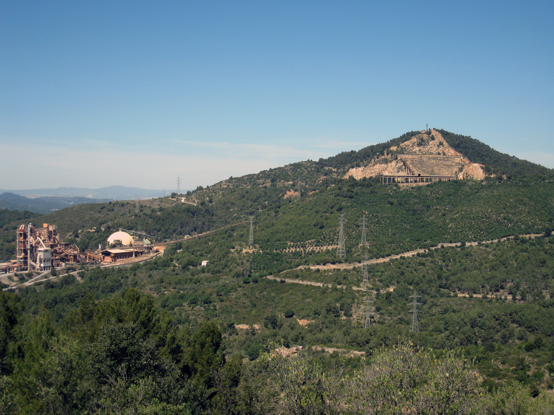 The mountain Puig d'Olorda with the cemet works Cemex (“Sanson”) in the Serra de Collserola in Catalonia (Spain).